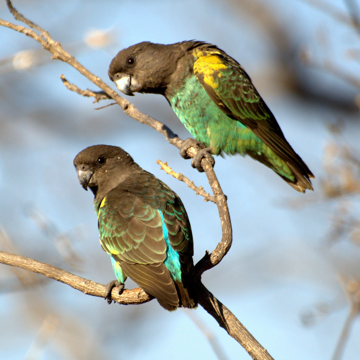 Two Meyer's Parrots in Zimbabwe.